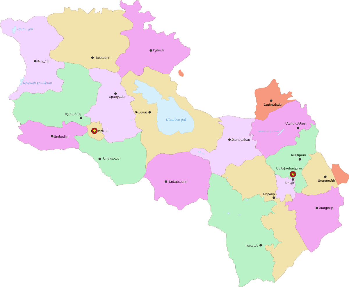 Map of Republic of Armenia and Artsakh (Nagorno-Karabakh) Republic